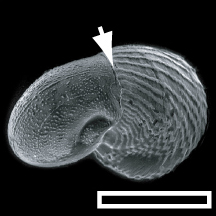 SEM image of initial postlarval shell of Haliotis asinina at metamorphosis. The scale bar is 100 μm. White arrow indicates metamorphosis from larval shell (protoconch) to juvenile shell.